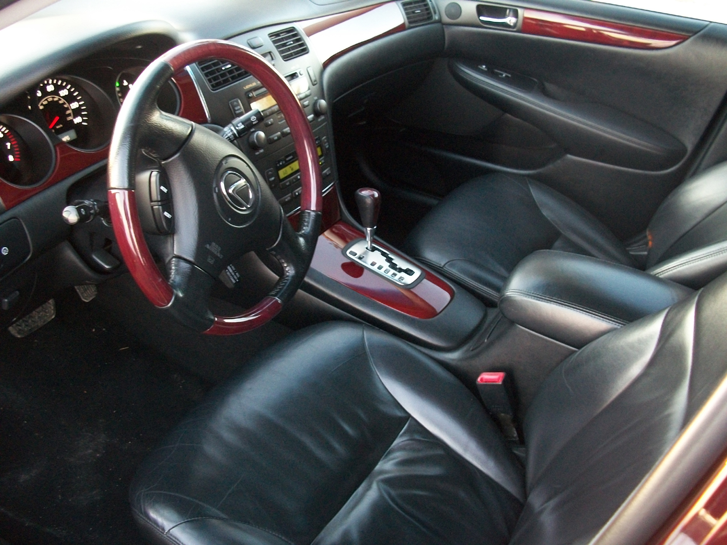 2002 Lexus ES300 interior